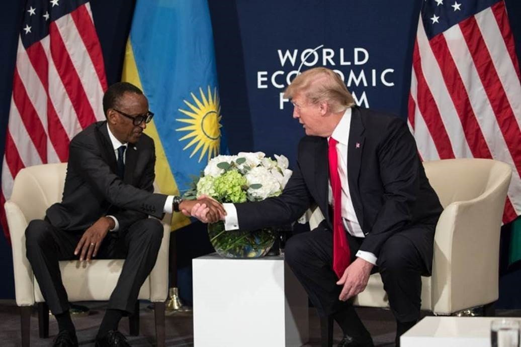 President Donald J. Trump shakes hands with Rwandan President Paul Kagame, during their bilateral meeting at the World Economic Forum Conference Center, Friday, January 26, 2018, in Davos, Switzerland.